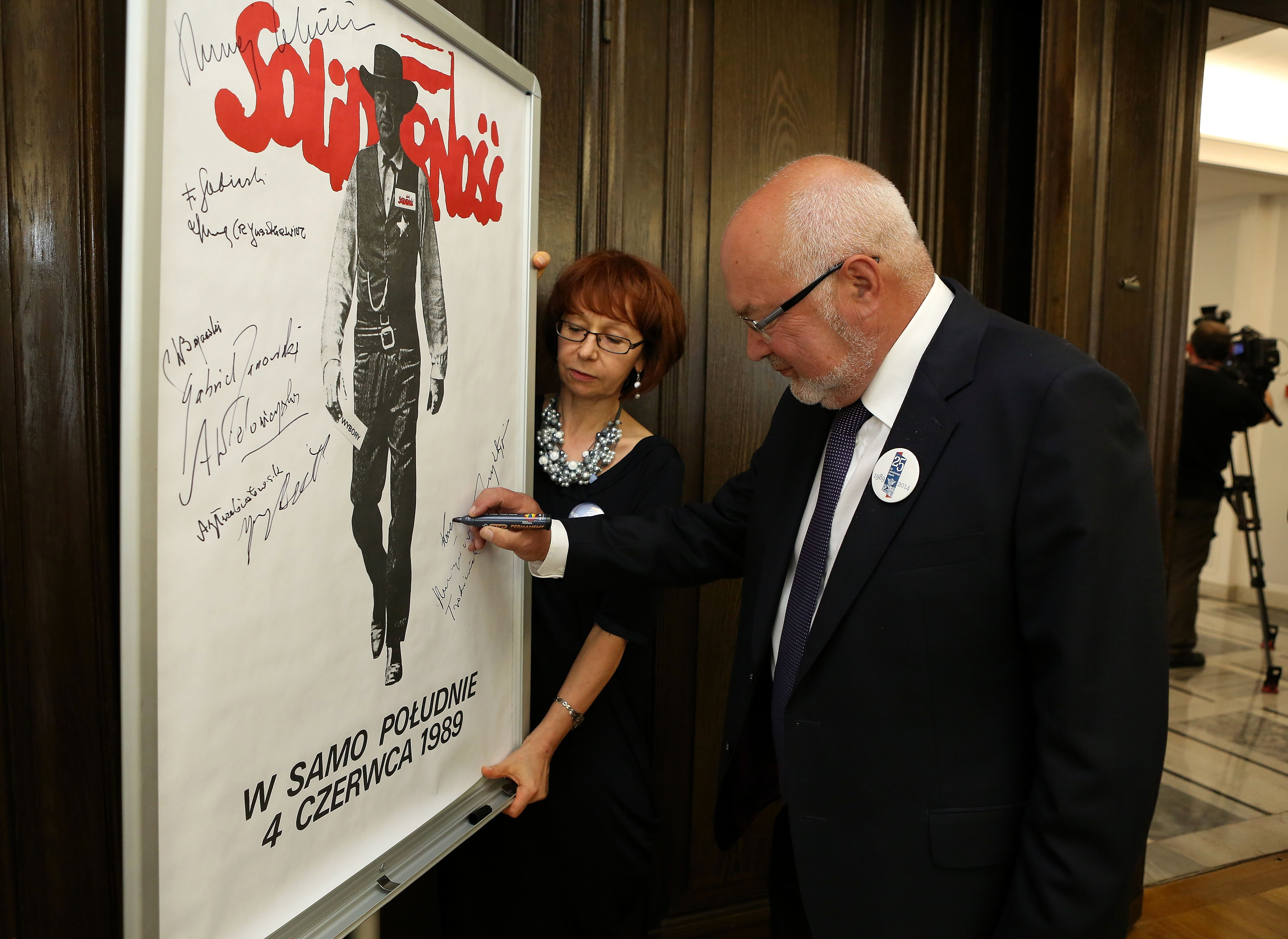 Krzysztof Pawłowski in the Polish Senate